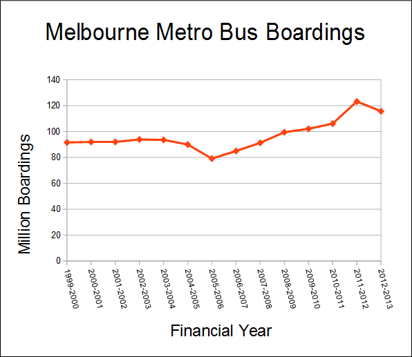 Melbourne metro bus boardings graph based on Public Transport Victoria patronage figures This work is styled on a previous .jpg graph uploaded in 2009 by Wiki English user Biatch.